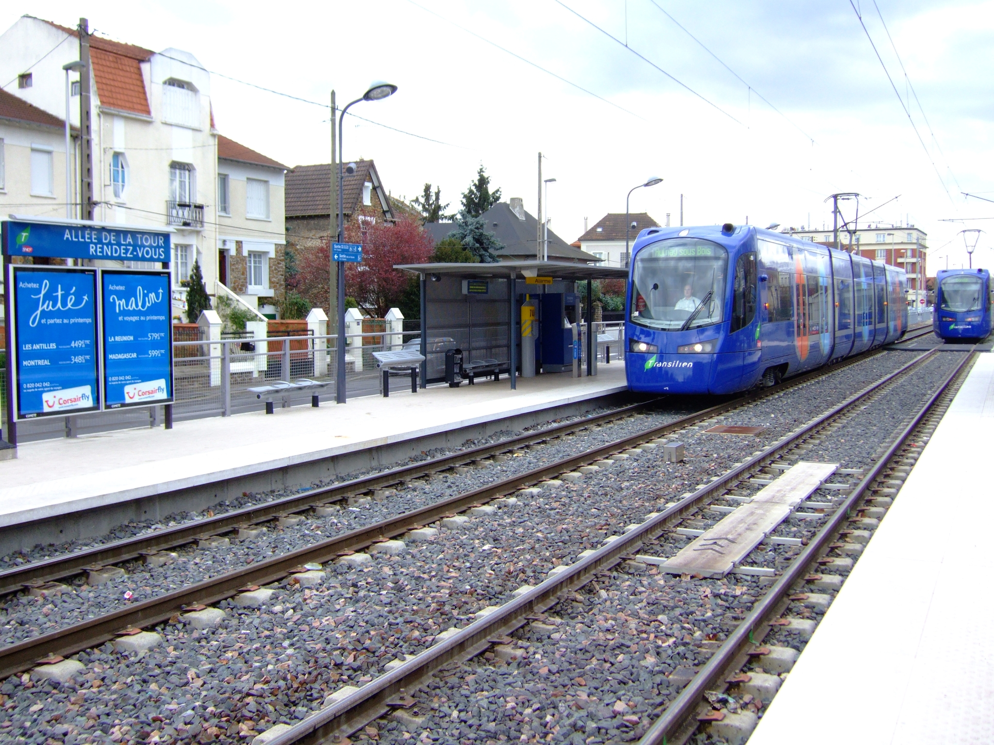 Tram-train U 25500 (Siemens AG constructor, Avento model) on renovated line between Aulnay sous bois and Bondy (both in Seine Saint Denis, France). This line is now named T4 from tramway parisien network. Here tram is approaching the Allée de la Tour - Rendez-Vous station (city of Villemomble) in direction to Aulnay sous Bois (traffic on right).